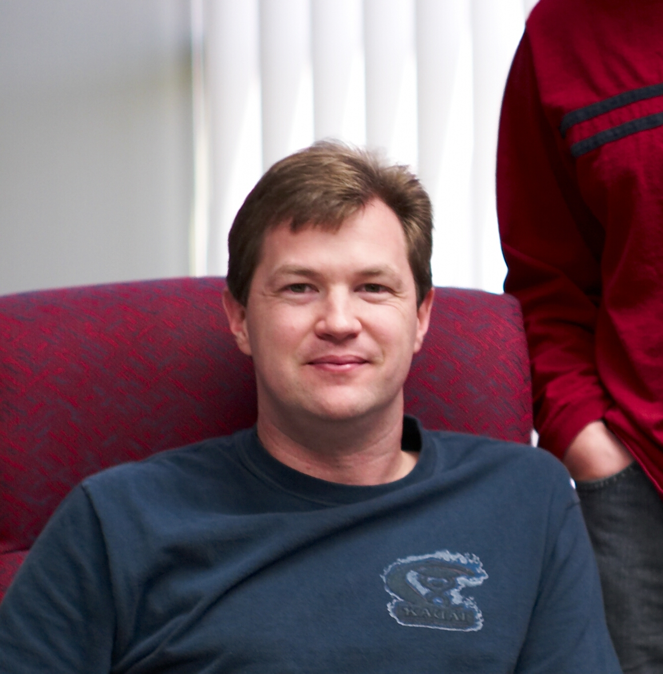 Rob Pardo.